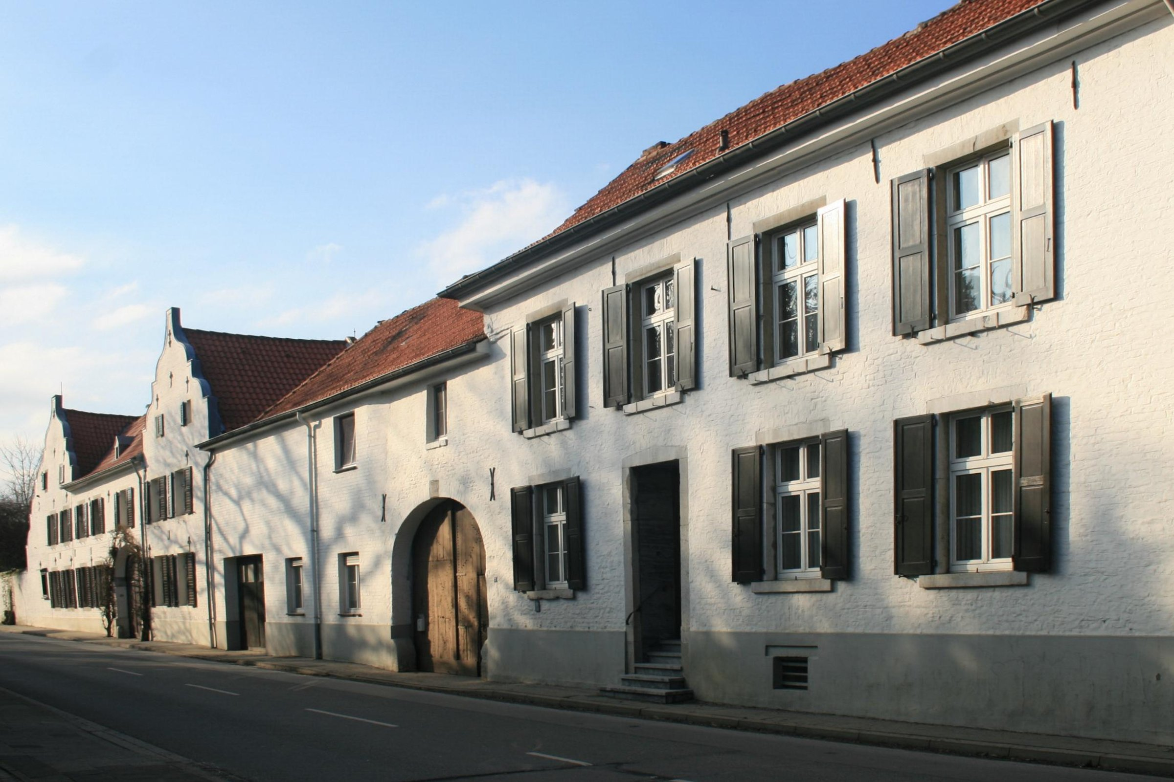 Cultural heritage monument No. 2 in Jülich